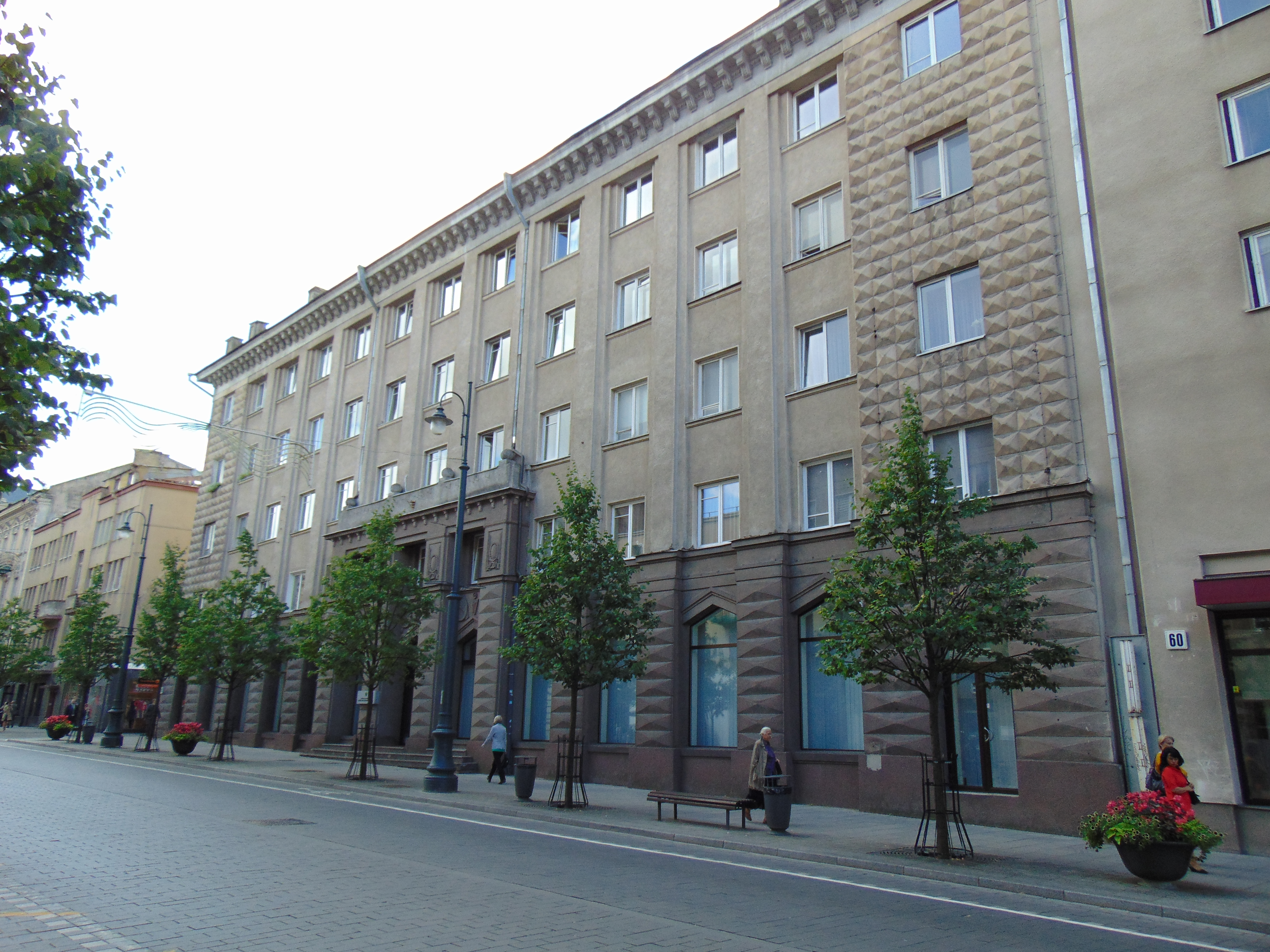 Building of Ministry of Forest of Lithuania